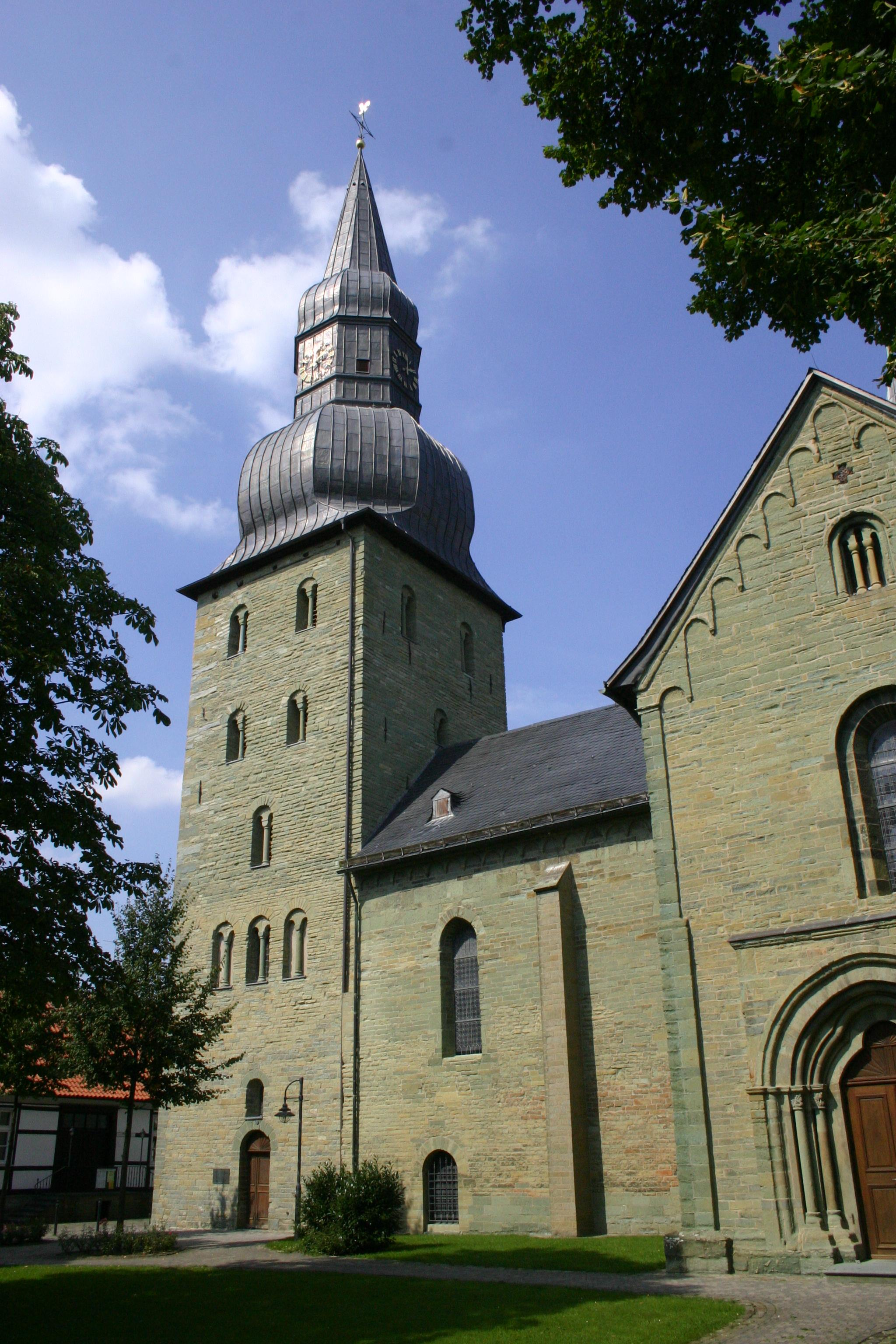 Saint Stefanus parish church This is a photograph of an architectural monument.